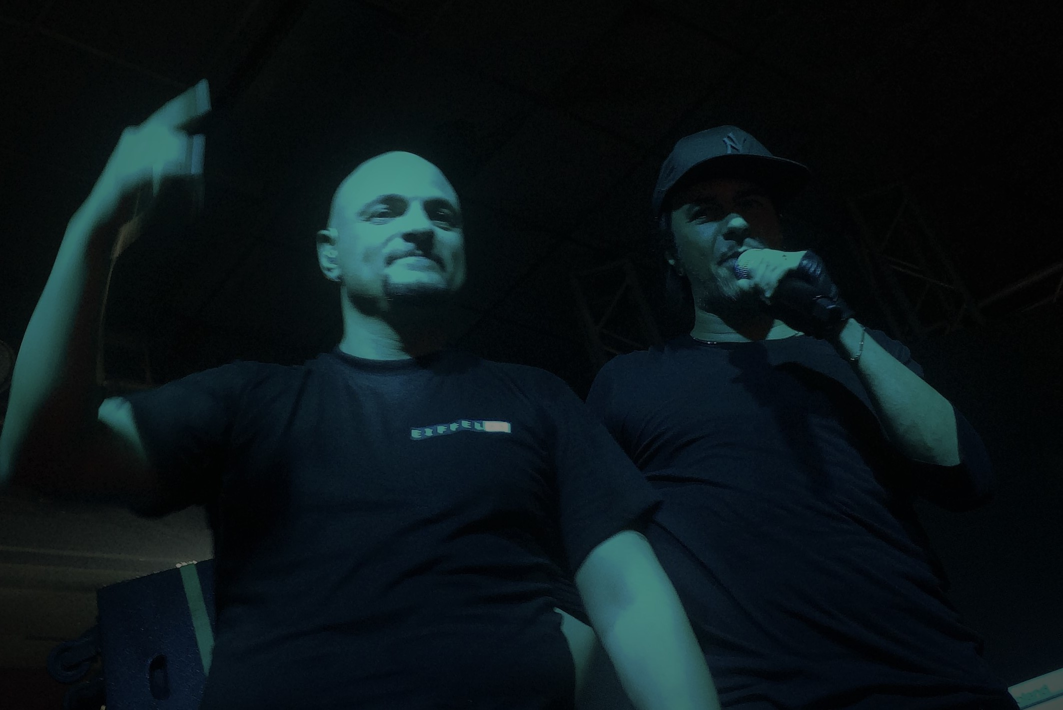 Gli Eiffel 65 nel 2016